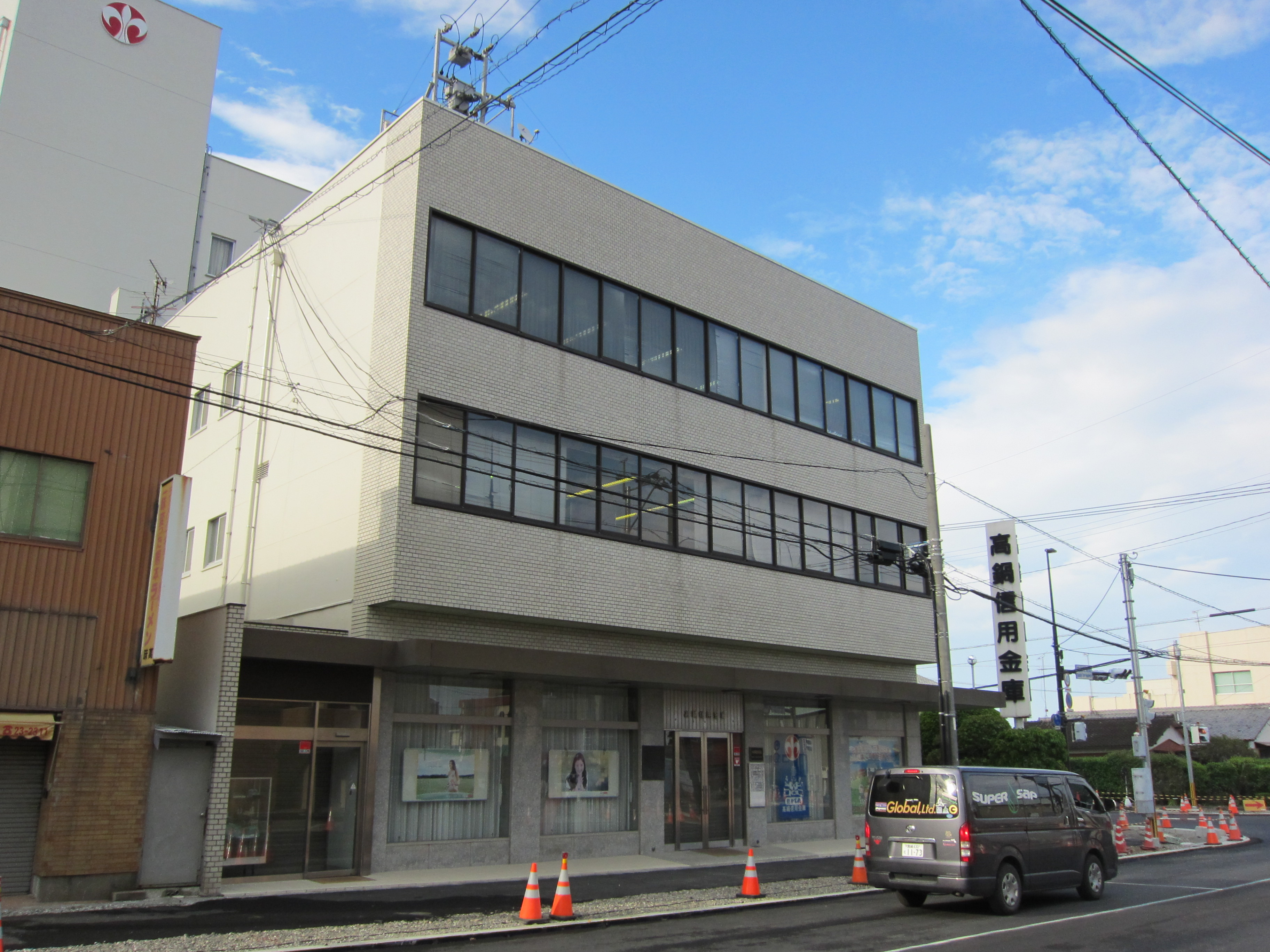 Takanabe Shinkin Bank